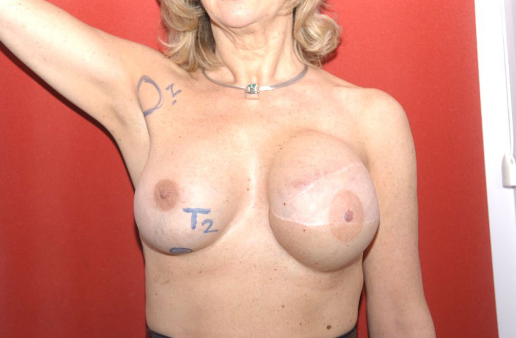 Early enlargement of the patient's left reconstructed breast.